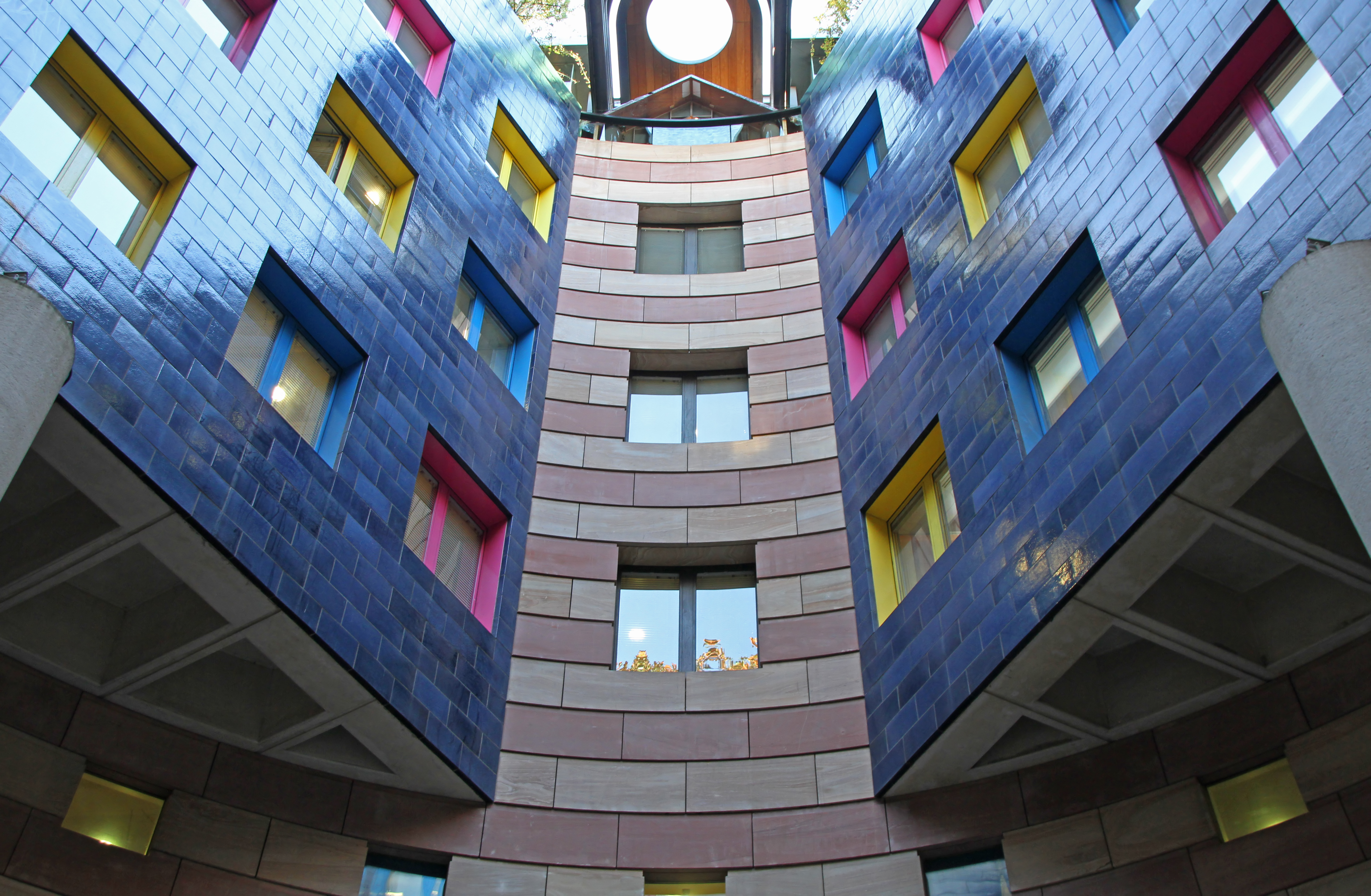 1 Poultry, London.